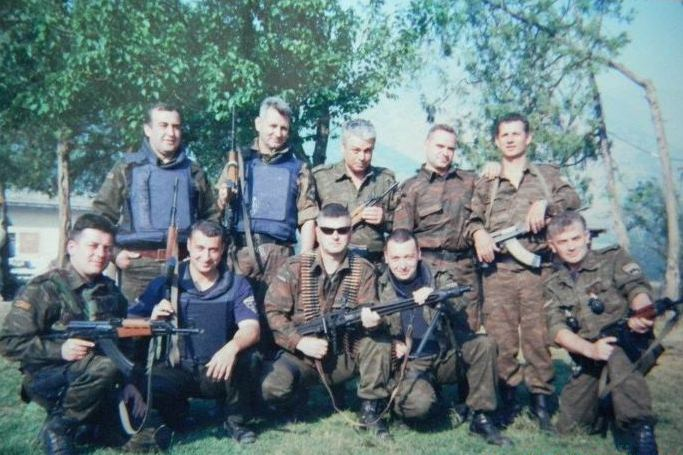 The second detachment of the Macedonian police station in the vilage of Radusha, which was defending Radusha during the clashes in June 2001.